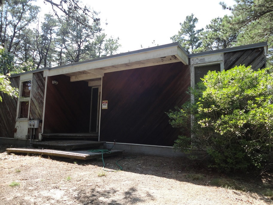 Samuel and Minette Kuhn House, Cape Cod National Seashore, Wellfleet, Massachusetts.